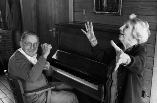 Resident of a nursing home in Munich (Germany)